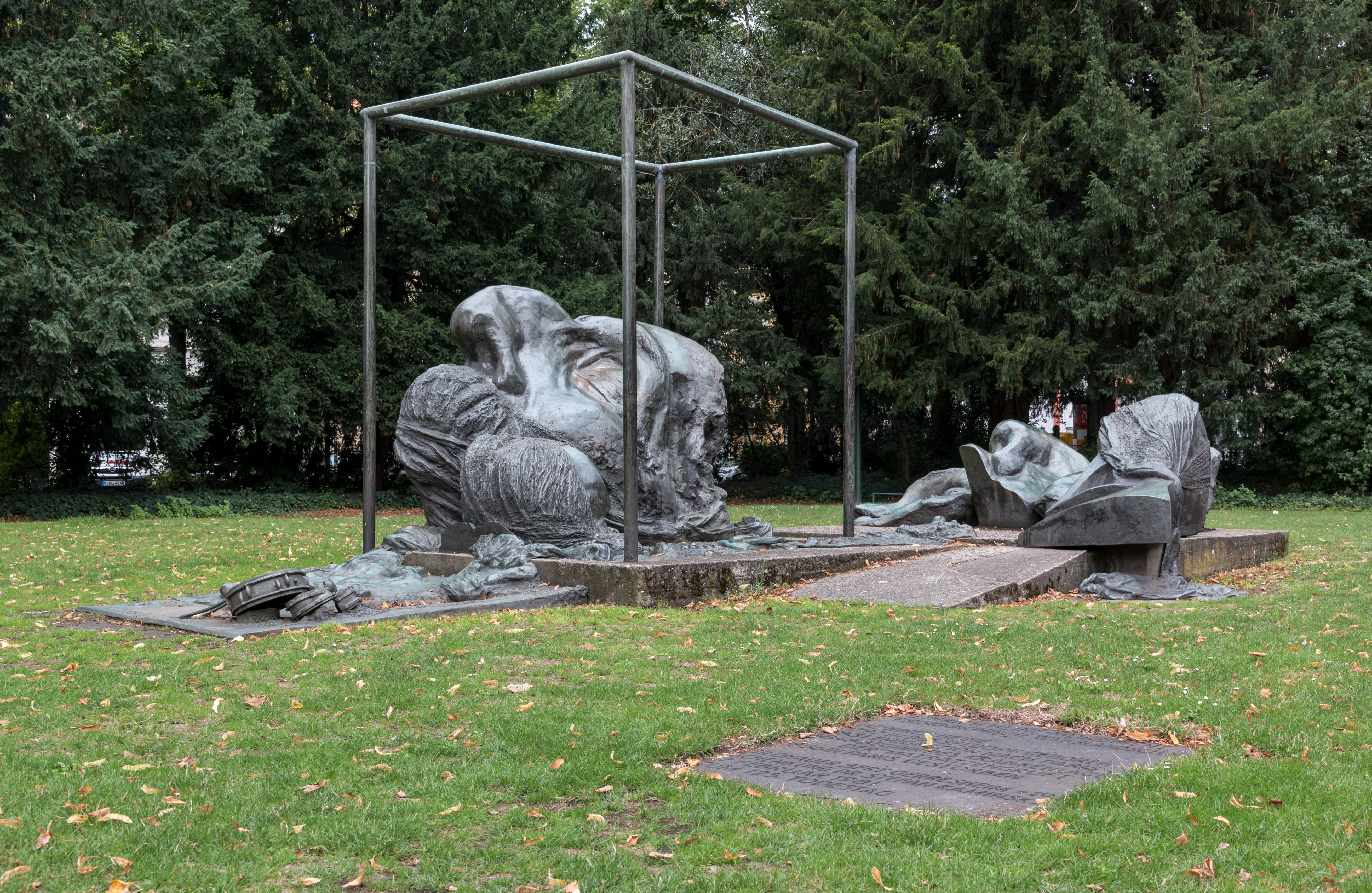 Heinrich Heine monument at Schwanenmarkt (Bert Gerresheim, 1978/81), Düsseldorf, North Rhine-Westphalia, Germany Sculpture TitleHeinrich-Heine-DenkmalArtistBert GerresheimDatefrom 1978 until 1981 date QS:P,+1950-00-00T00:00:00Z/7,P580,+1978-00-00T00:00:00Z/9,P582,+1981-00-00T00:00:00Z/9